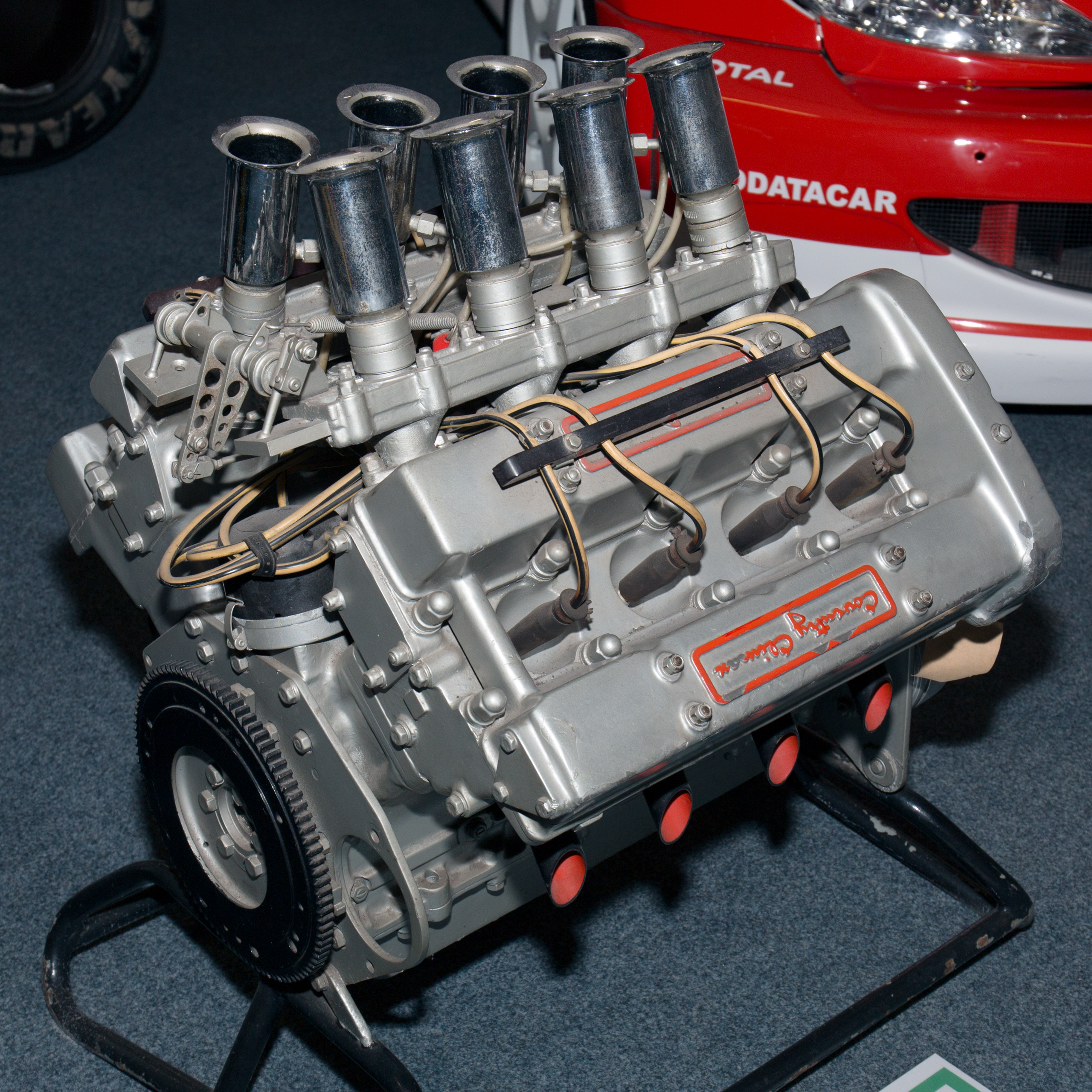 Coventry Climax FWMV 1.5 litre engine